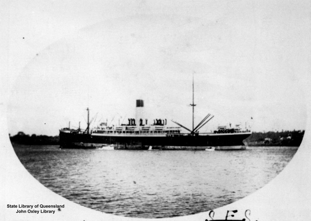 The 10,046 GRT liner Anchises, built in Belfast in 1911 by Workman, Clark for Blue Funnel Line. On 28 February 1941 she was bombed and sunk off NW Ireland.